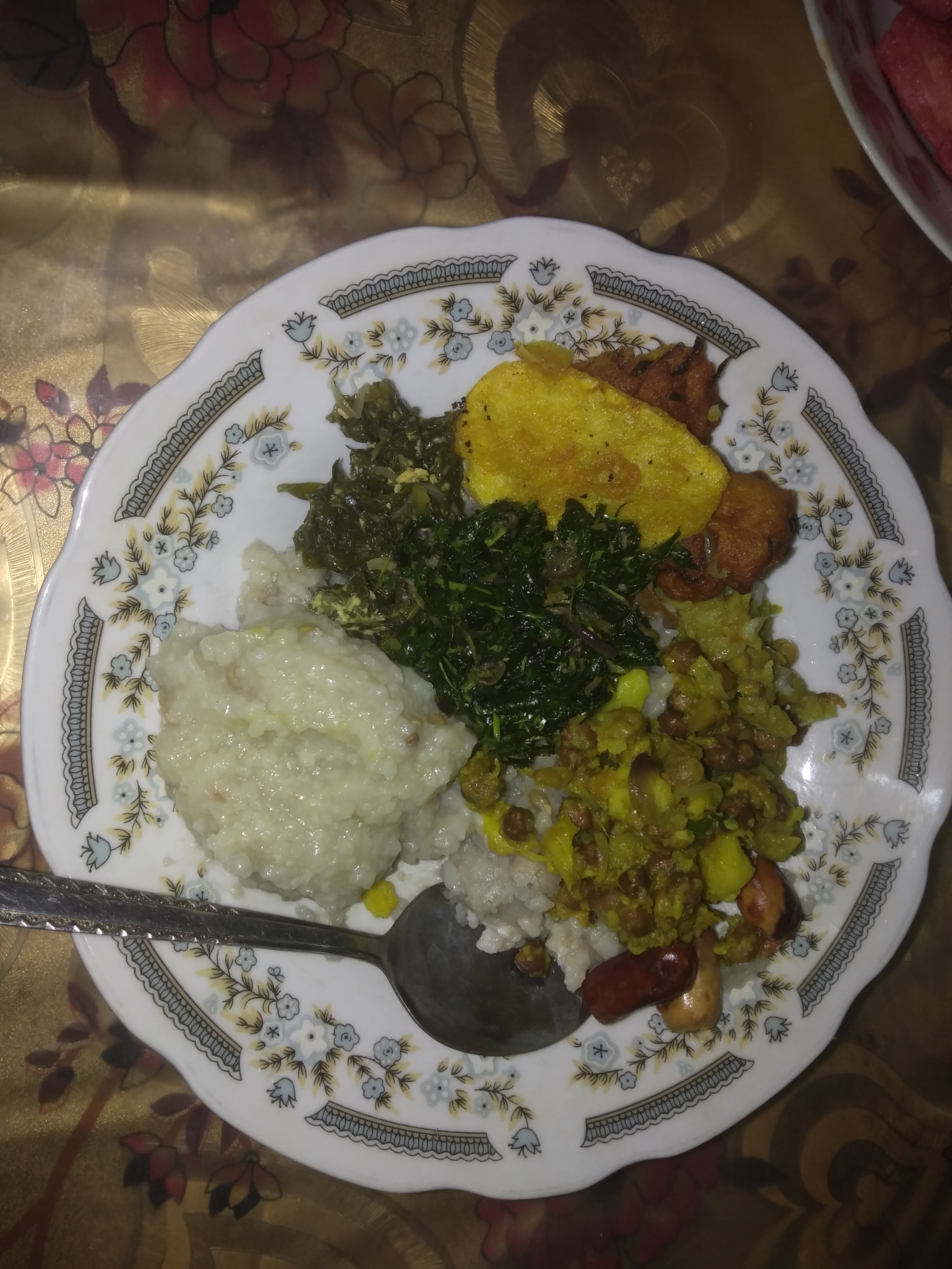 Sylheti iftari